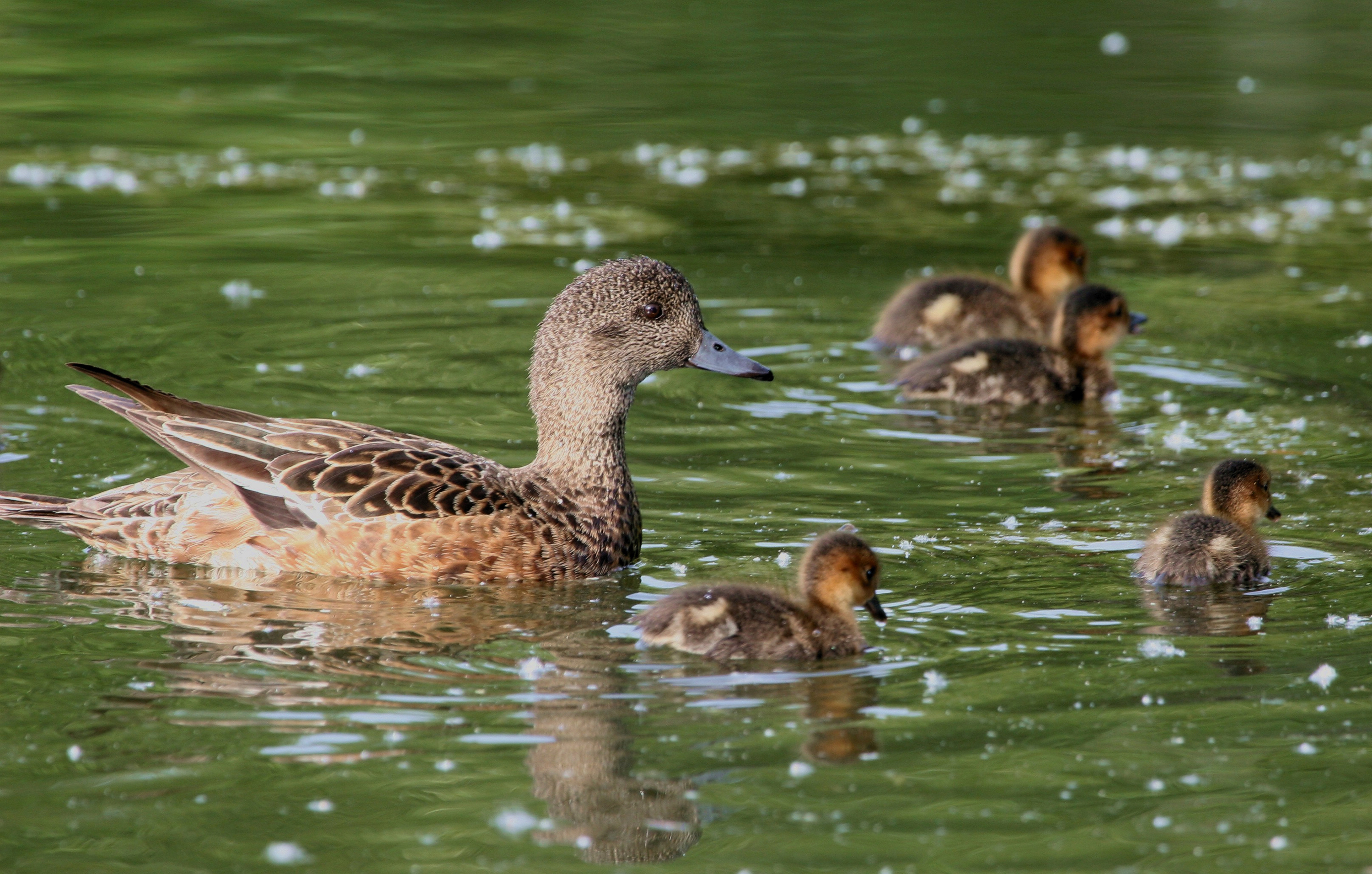 American Wigeon brood, Anas americana, Cheney Lake, Anchorage, Alaska